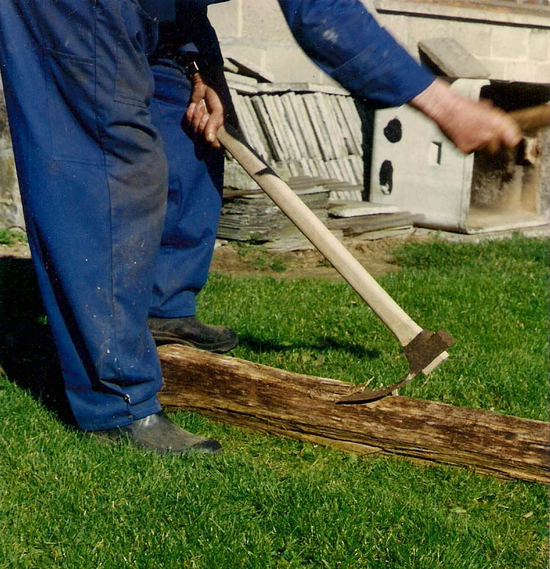 Using a carpenters adze with a mallet Walon: hawea d' tchepetî